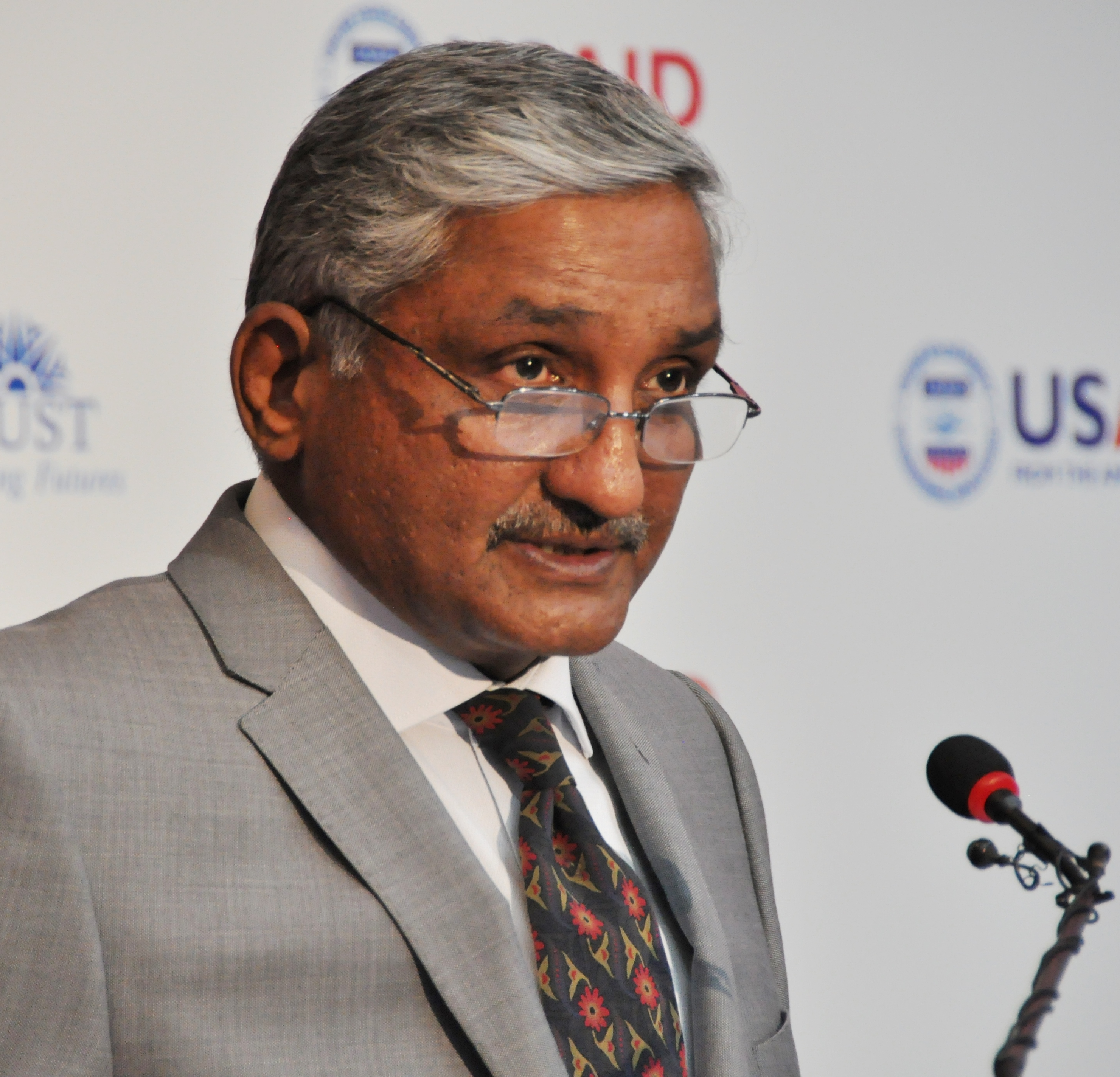 Rector, NUST Lieutenant General (retired) Naweed Zaman acknowledged USAID’s assistance by stating, “The role of USAID in the promotion of education is admirable. The center will help produce skilled graduates and set new standards for supporting success of both women and disadvantaged youth in the engineering profession.”